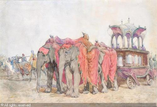 Elephant stage carriage of Maharaja of Alwar.Presntly being used in annual Jagannath Rath Yatra